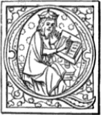 Historiated Q from the Vienna manuscript of Meraugis (facsimile) The man's figure pointing his finger underlines a "strong authorial presence". (i.e. it is hinted but not asserted it represents Raould de Houdenc) (Busby, Keith (2000) Lacy, Norris J. , ed. Por Le Soie Amisté: Essays in Honor of Norris J. Lacy, Rodopi, pp. 95- ISBN: 904200620X. : pp.96, 104)